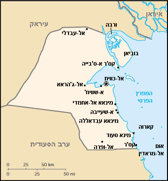 Map of Kuwait, with Hebrew text, from CIA World Factbook.